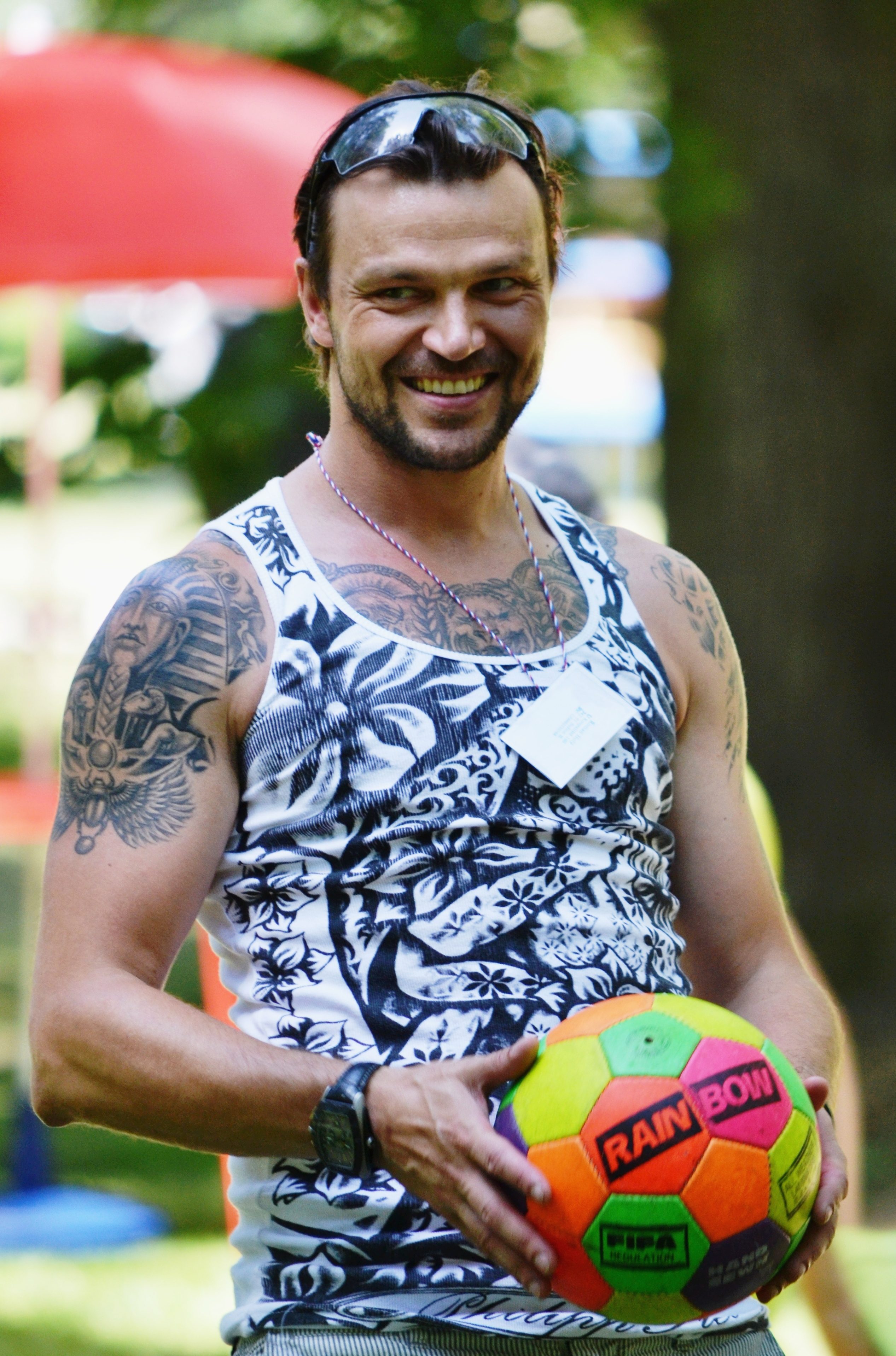 Tomáš Ujfaluši, Czech footballer